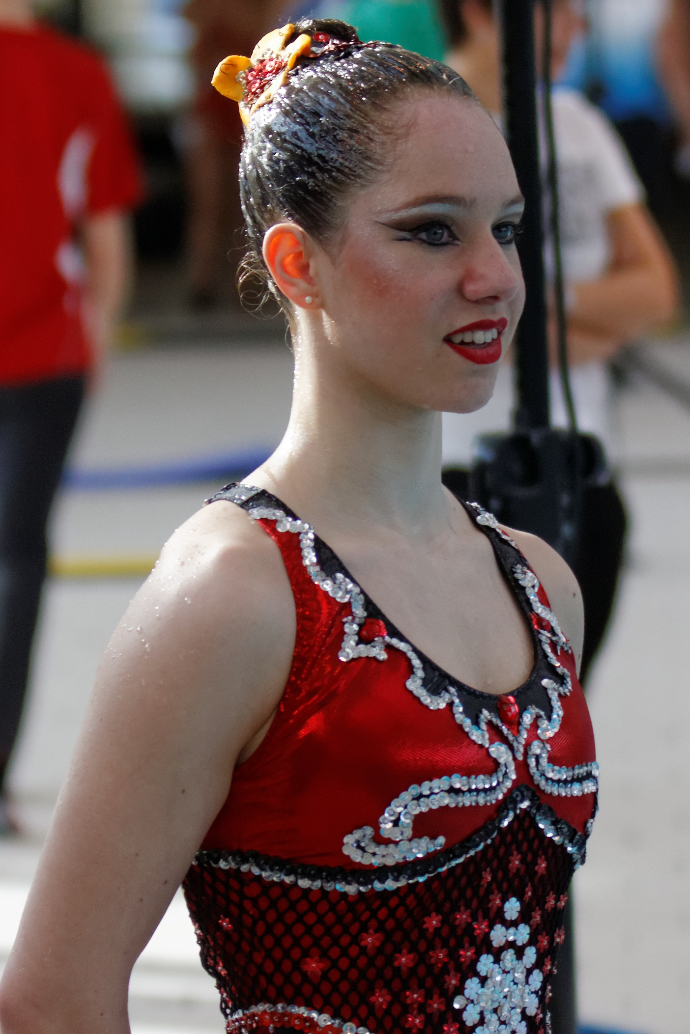 The French synchronized swimmer Estel-Anaïs Hubaud during the free solo routine at the French Open in Montreuil, March 15, 2013.